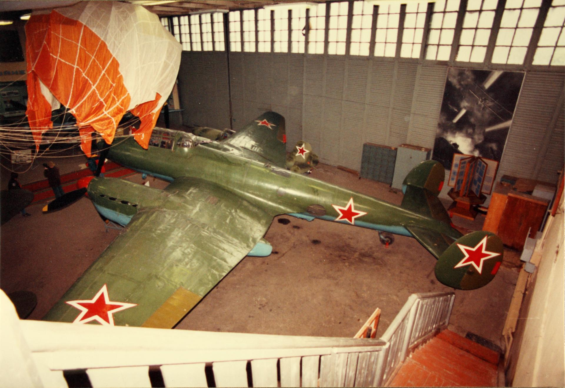 Catalog #: 01_00086641 Title: Petlyakov, Pe-2 Corporation Name: Petlyakov Additional Information: USSR Monino, Charles Daniels Photo Designation: Pe-2 Tags: Petlyakov, Pe-2 Repository: San Diego Air and Space Museum Archive